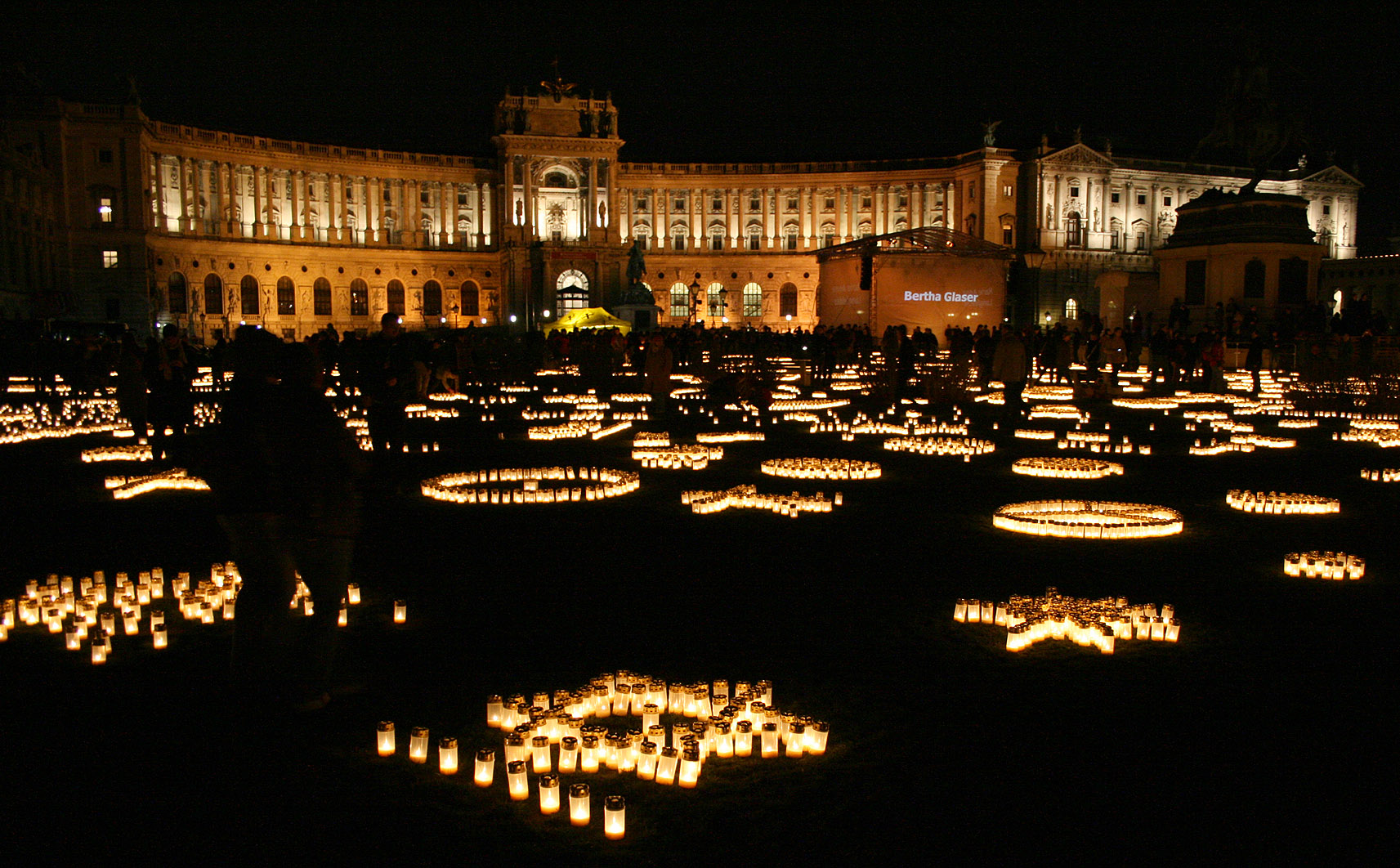 Austria, Vienna, Heldenplatz